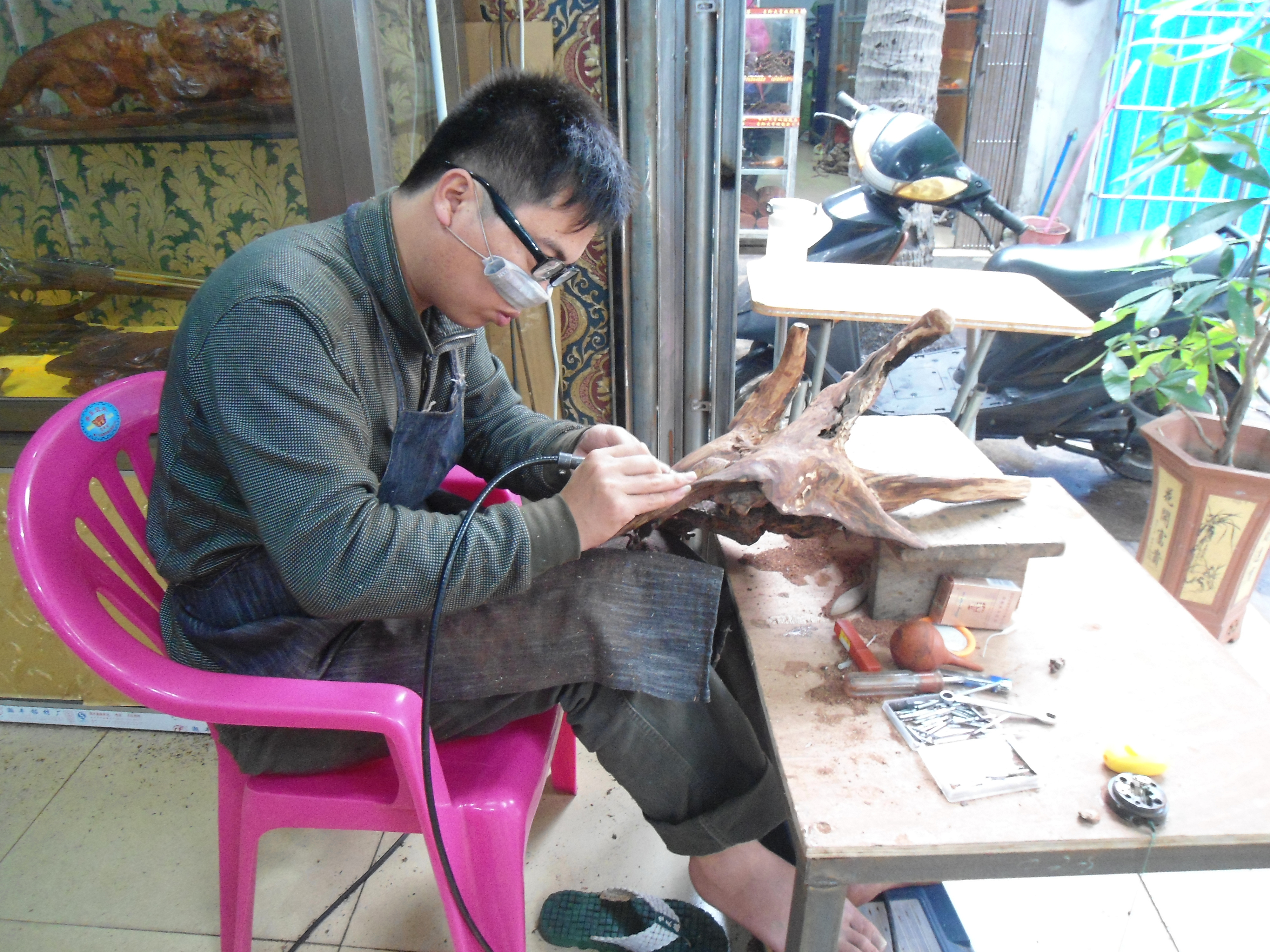 Root carving in progress, Haikou, Hainan, China.